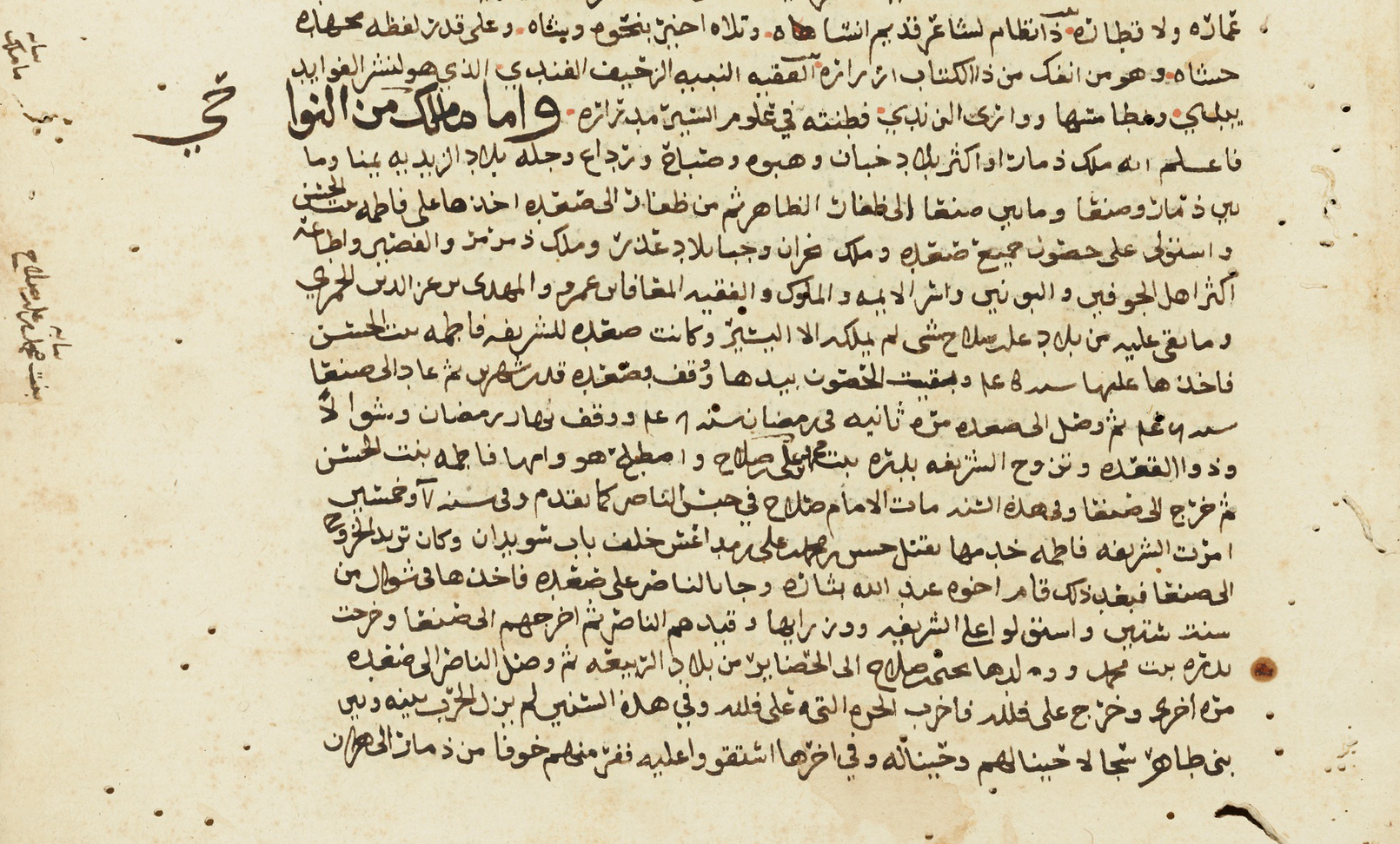 A passage mentioning the Sharifa Fatima bint al Hassan from the book Maathir al Abrar, aka Lawahiq al Nadiyah by Ibn Fand (d. 1510). This copy was completed by Ali ibn Ahmad ibn al Hassan 8 Dhu al Qaʻdah 1066 [17 September 1656].